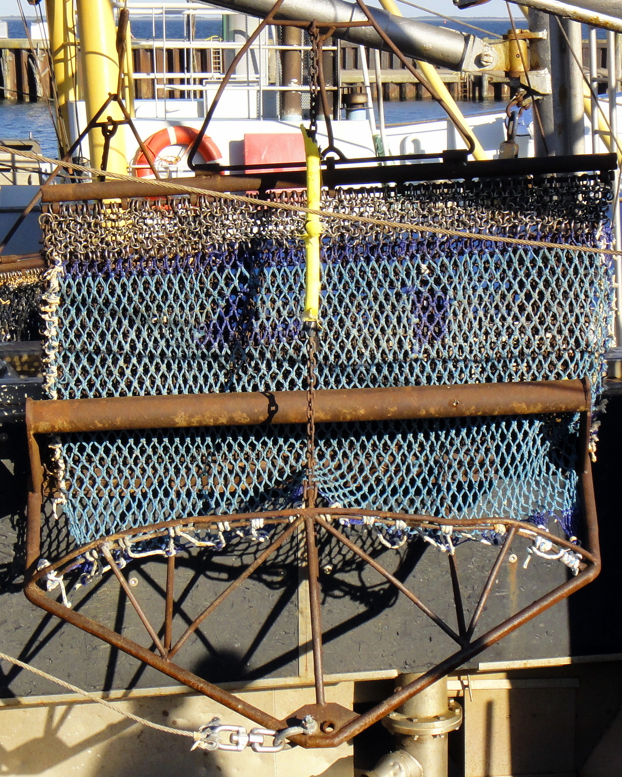 Net for fishing mussels in Hörnu, Sylt, Germany